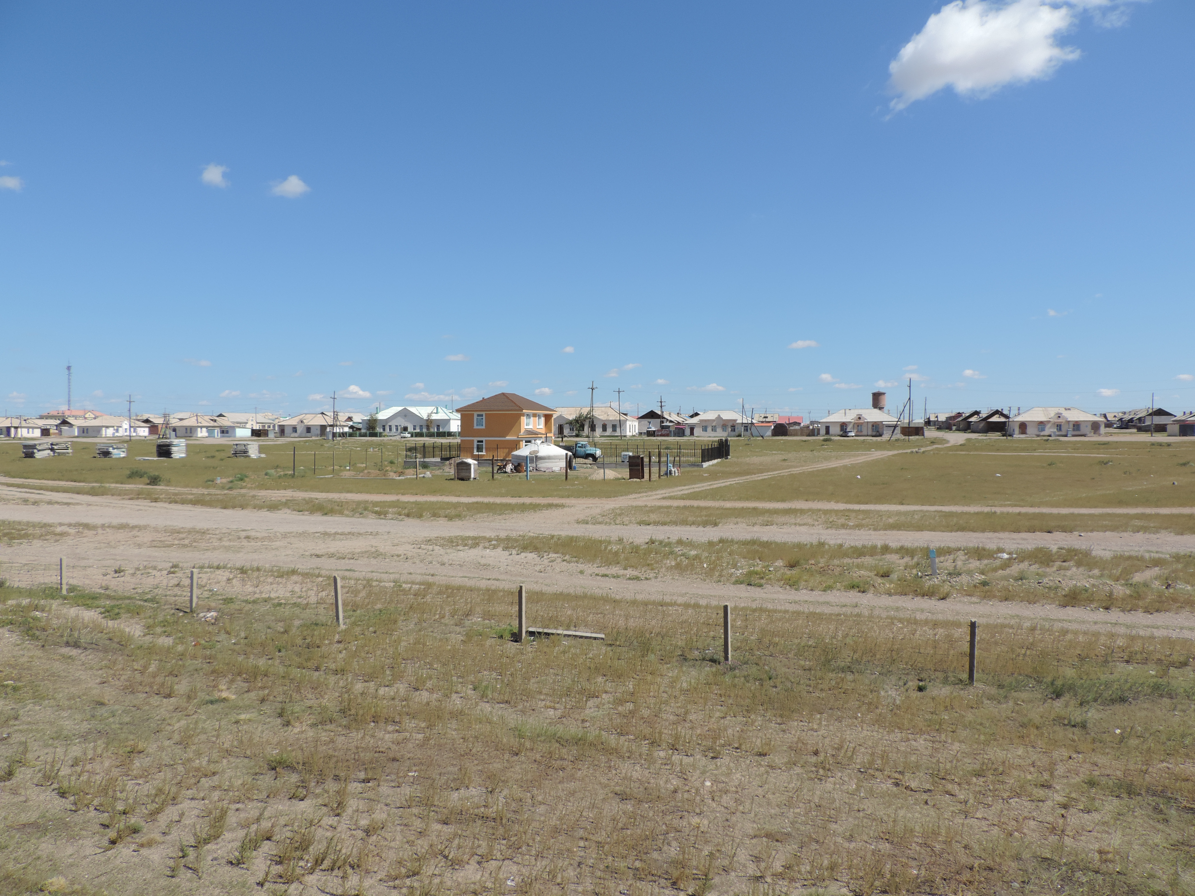 General view of Choyr (or Choir), Mongolia